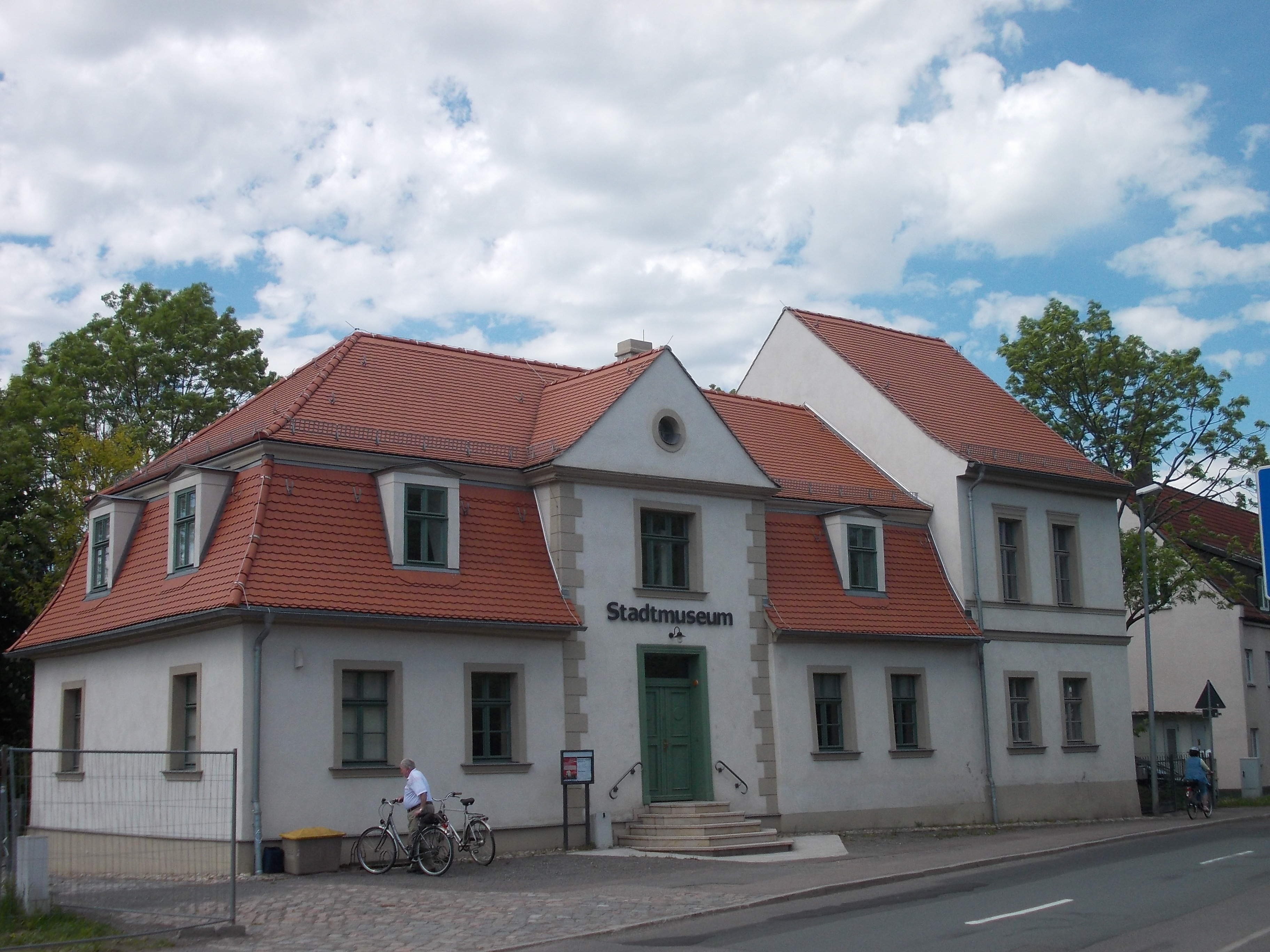 Museum of the town of Schkeuditz (Nordsachsen district, Saxony)